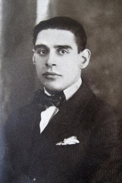 Henri Smets: Belgian Olympier 1920